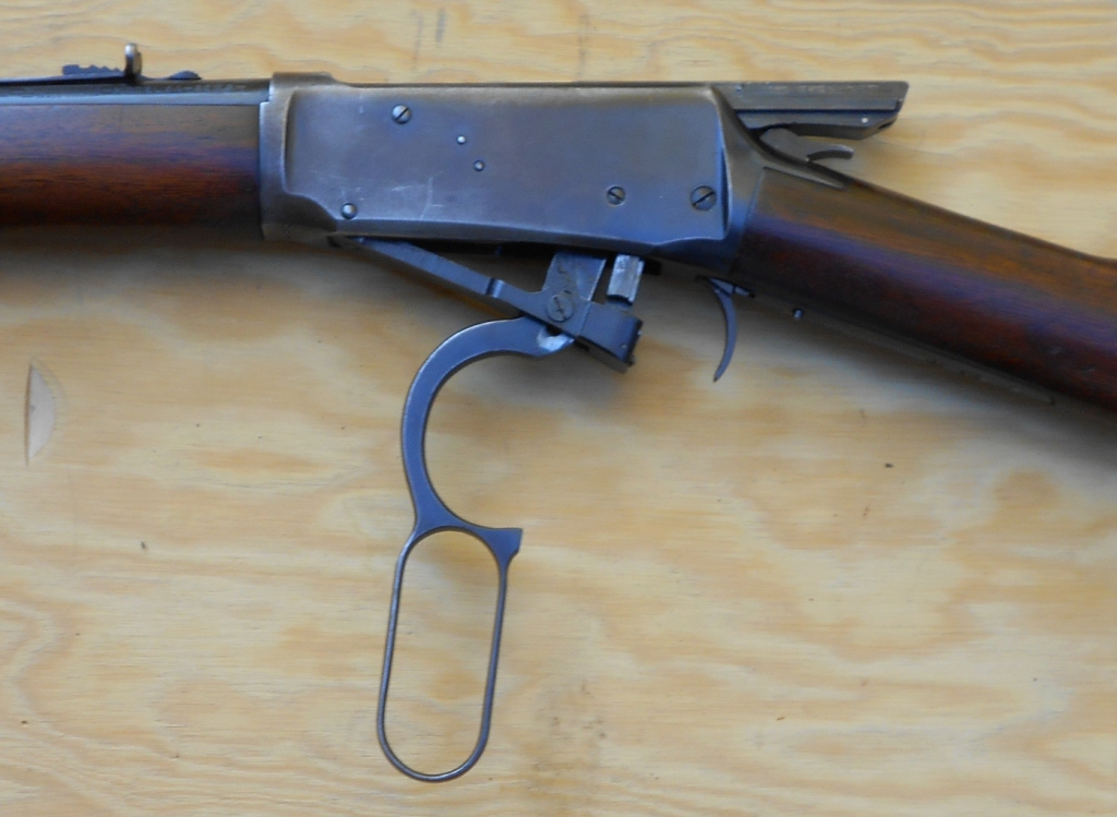 Winch M 94 receiver